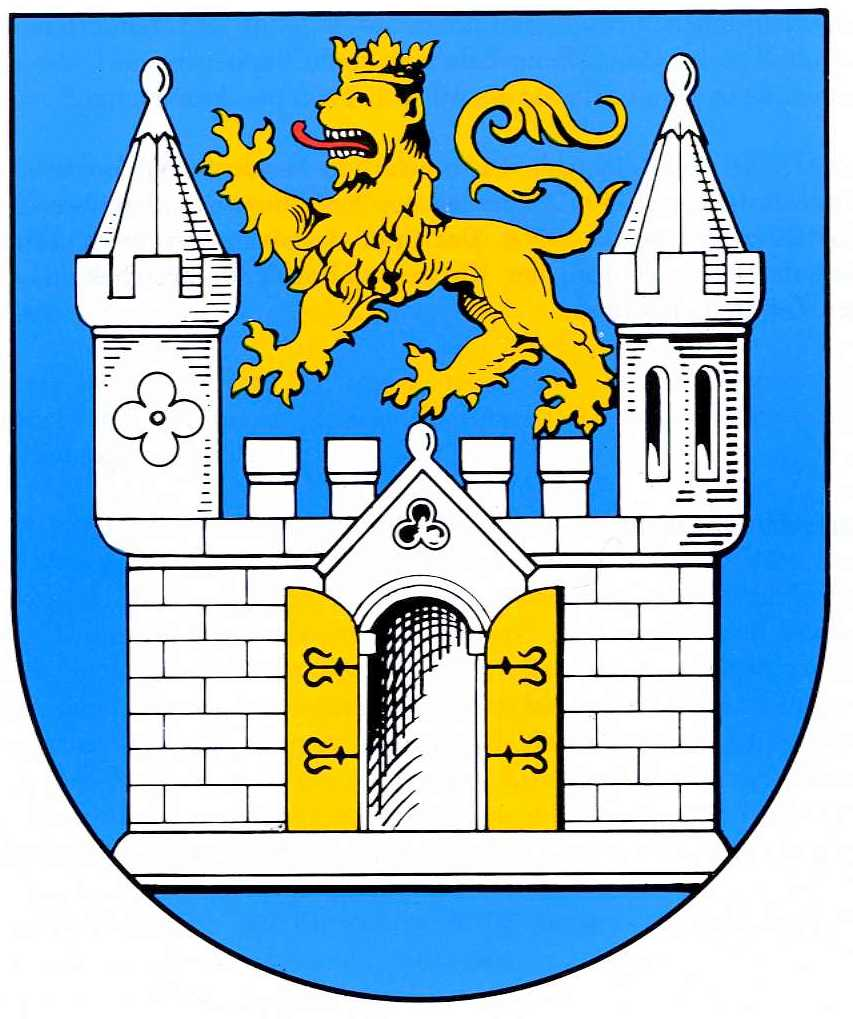 Coat of Arms of Wunstorf